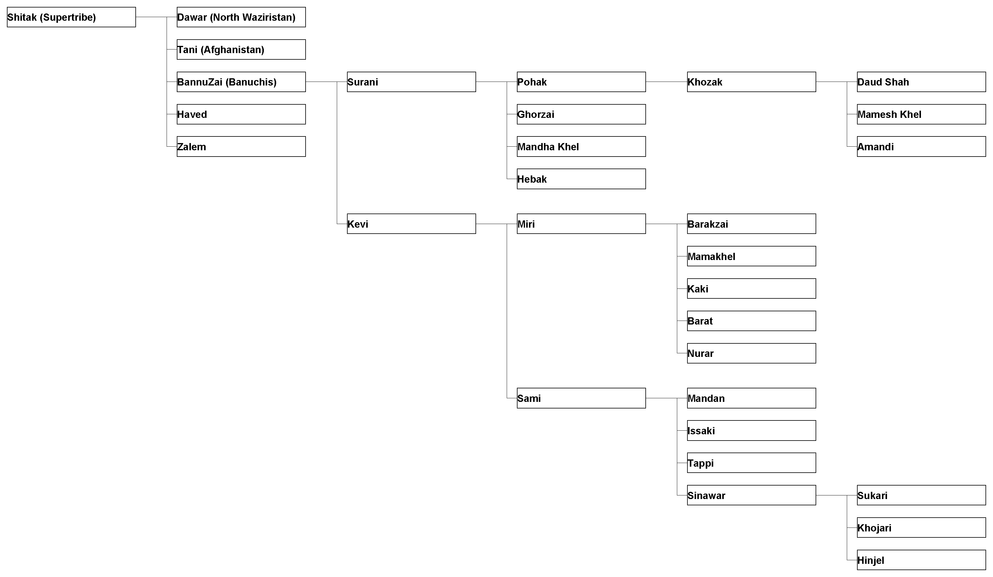 Shitak Genealogy